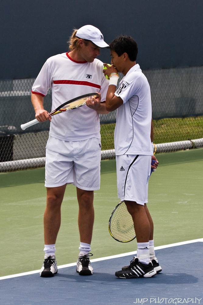 Frank Moser (left) and Yen-hsun Lu (right) against Ashley Fisher and Jordan Kerr (unseen) in the 2009 Indianapolis Tennis Championships first round